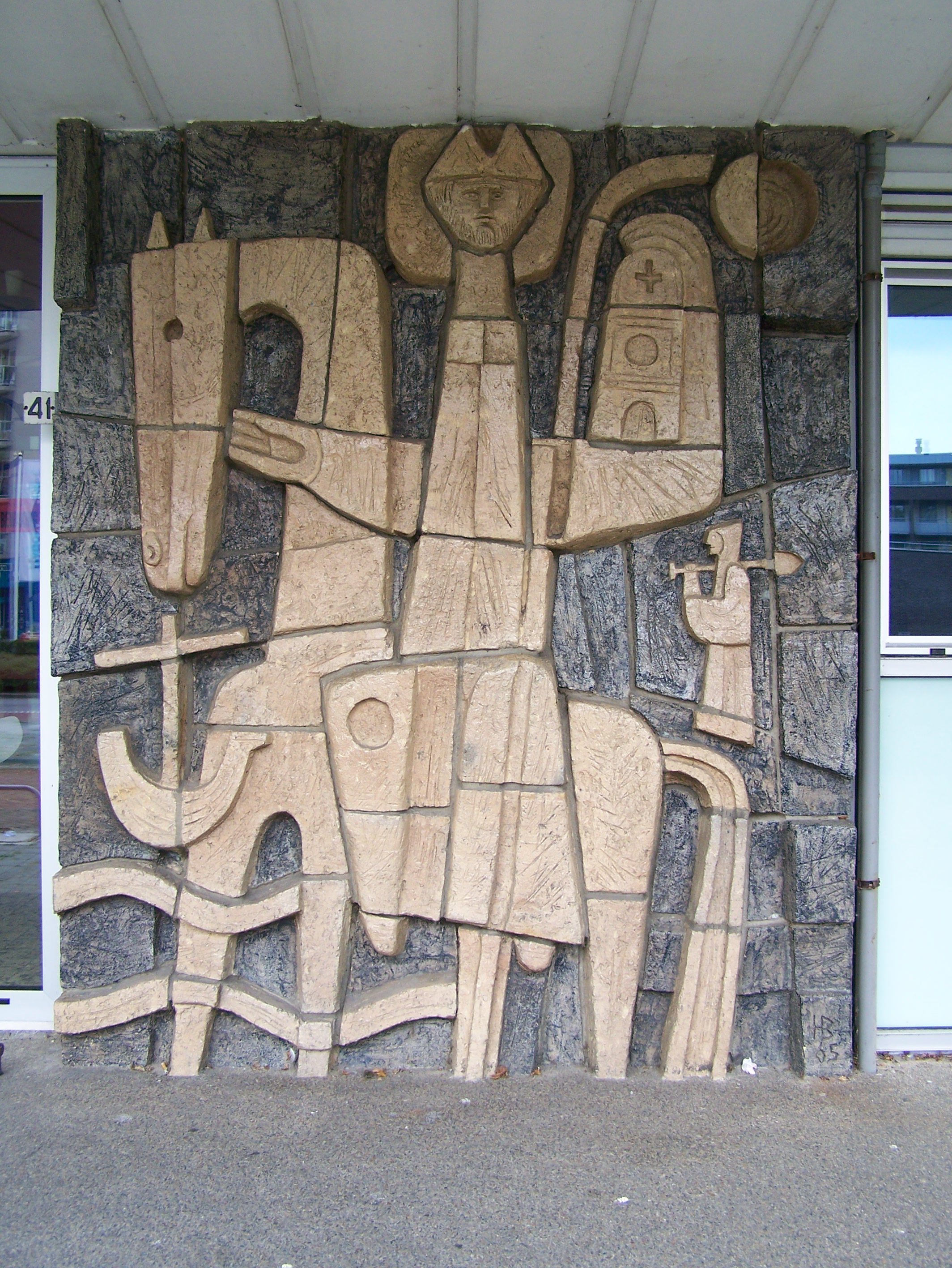 Relief of Willibrord at the Vondelstraat (Petrus Canisius College) in Alkmaar. Signed H.B.